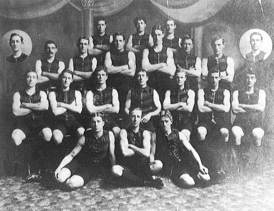 Team photo of the 1911 SAFL side West Adelaide who won that years Championship of Australia. BACK ROW - J.F McCarthy, W Mills, L Smith THIRD ROW - G Oakley, W A'Court, T Moore, T Lane, W Slattery, J Moy SECOND ROW - Alec Conlin, J.J McCarthy, H.R Head (V.C), J Dailey (Capt.), W Dowling, J.J Baker, Art Conlin FRONT ROW - B Hele, R Stearnes, V.V Conlin COACH & CAPTAIN: J.B Dailey